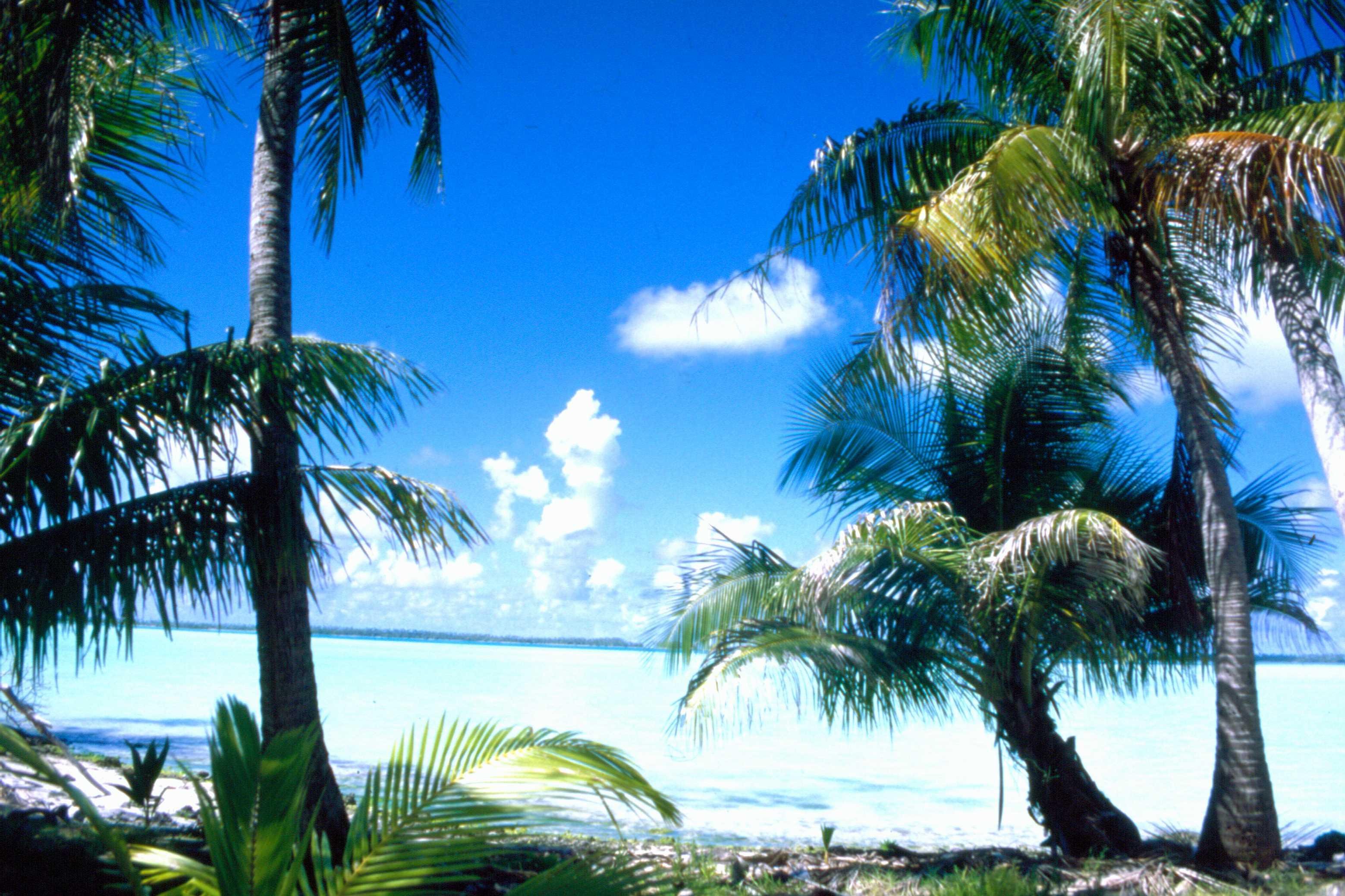 Central lagoon of Mataiva Atoll, Tuamotu Archipelago, French Polynesia